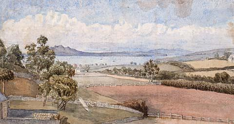 Watercolour painting of Rangitoto